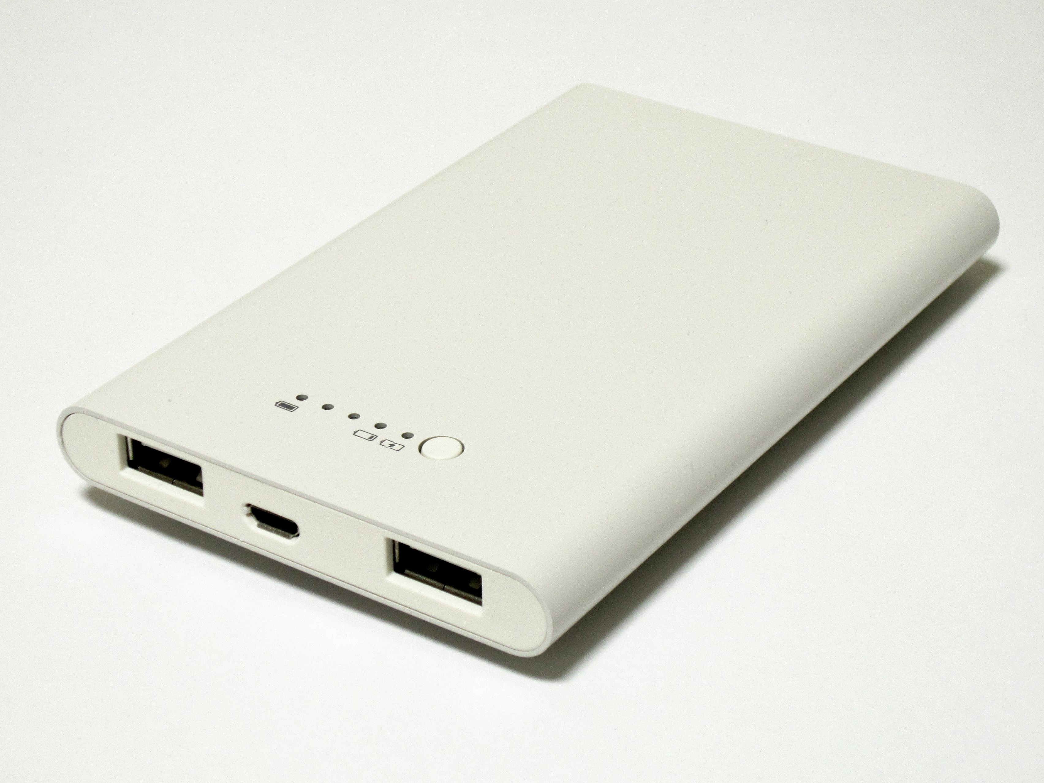 Muji Rechargeable Battery for Smartphone 5000mAh MB50-MJ (made by Hitachi Maxell).